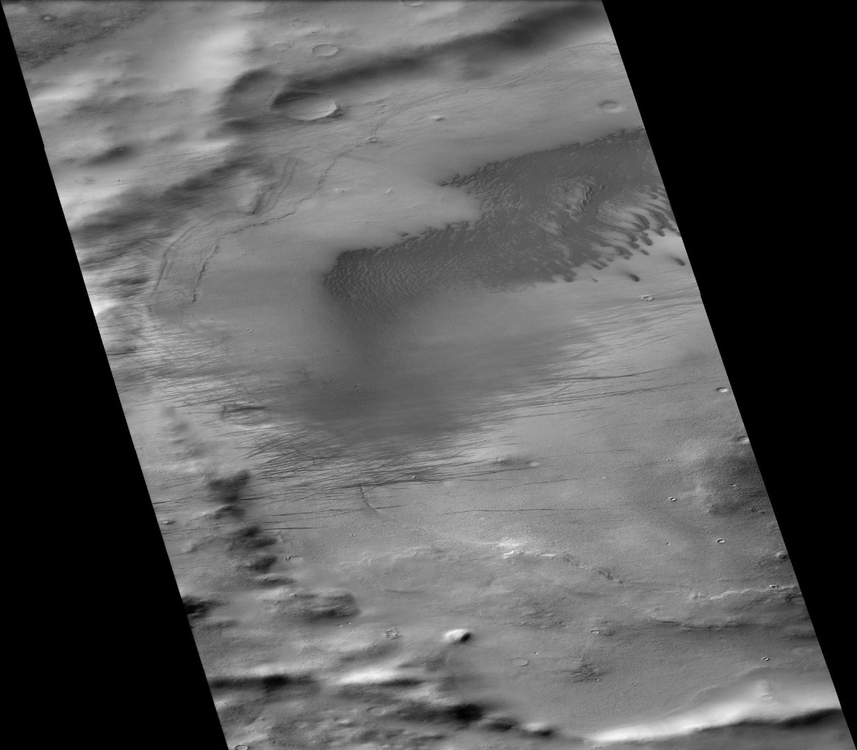 Biachini Crater showing dust devil tracks, as seen by CTX